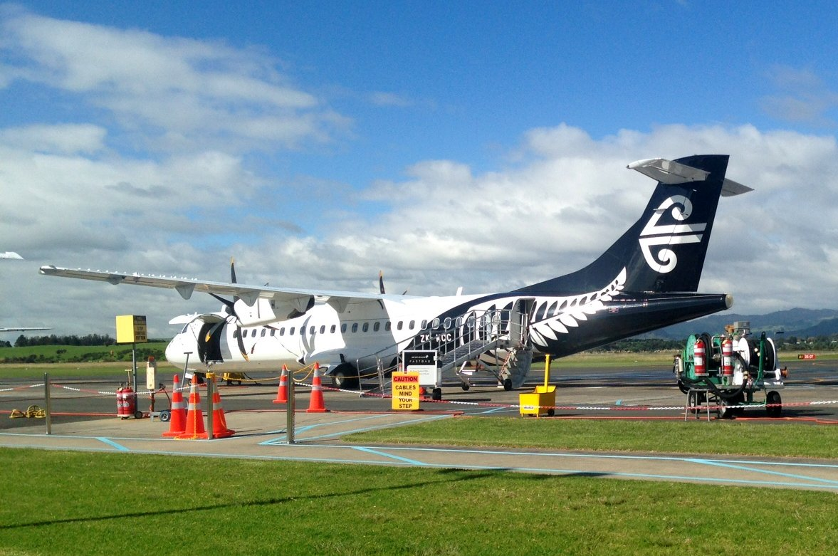 Mount Cook Airline (operating for Air New Zealand Link) ATR 72-500 (ZK-MCC) at Tauranga Airport